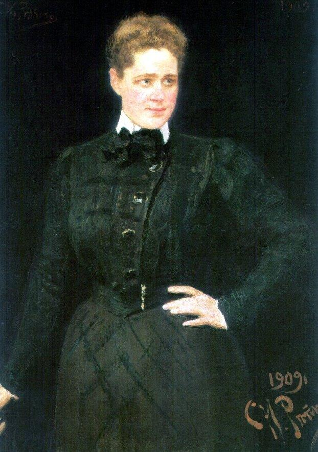 Portrait of countess Sophia Vladimirovna Panina